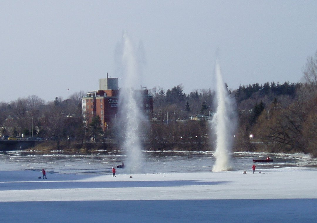 Ice blasting. Unidentified location. Taken by SimonP in March 2005.